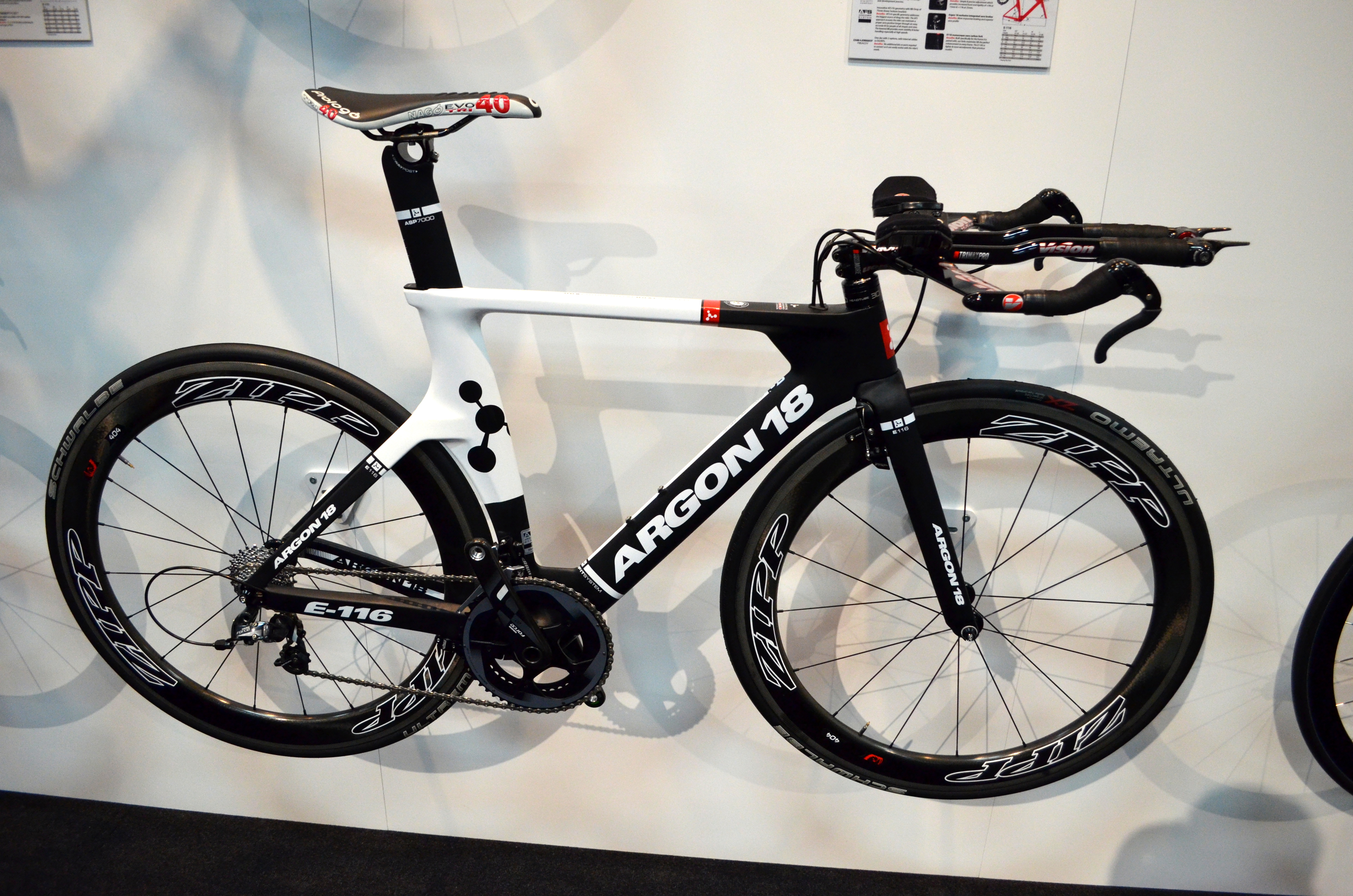 Brake calipers included in frameset